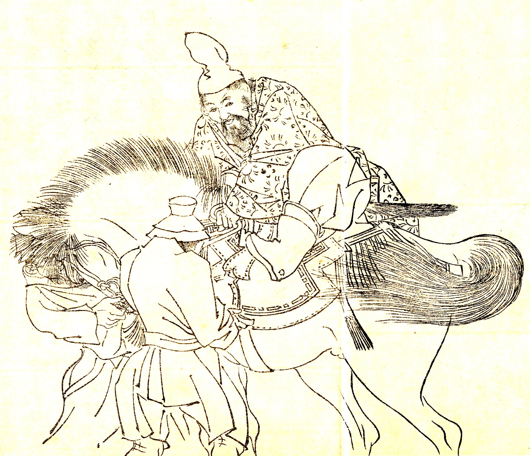 Fujiwara no Tadamori(藤原三守) was a Japanese Politician and court noble in Heian period.